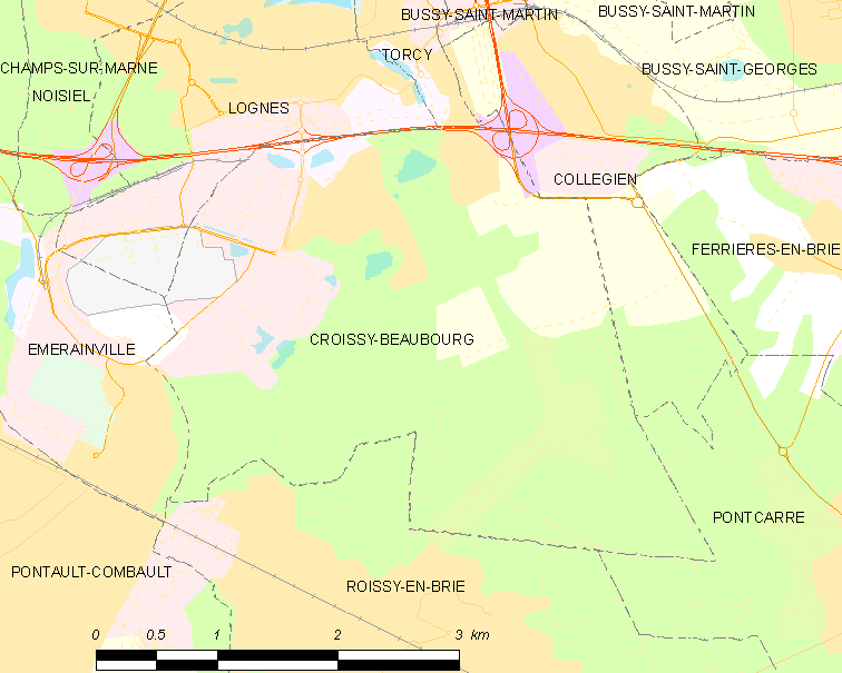 Map of French municipality Croissy-Beaubourg